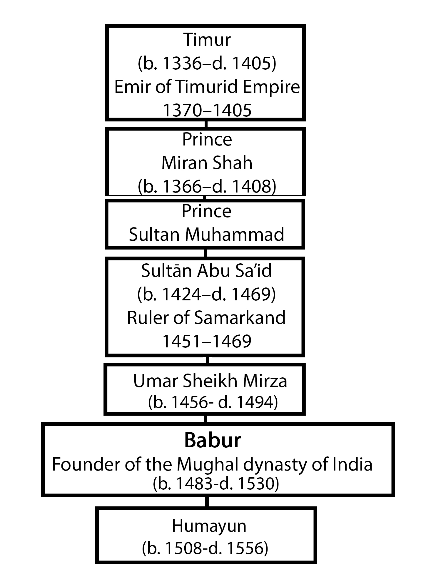 Humayun's Genealogical Order up to Timure